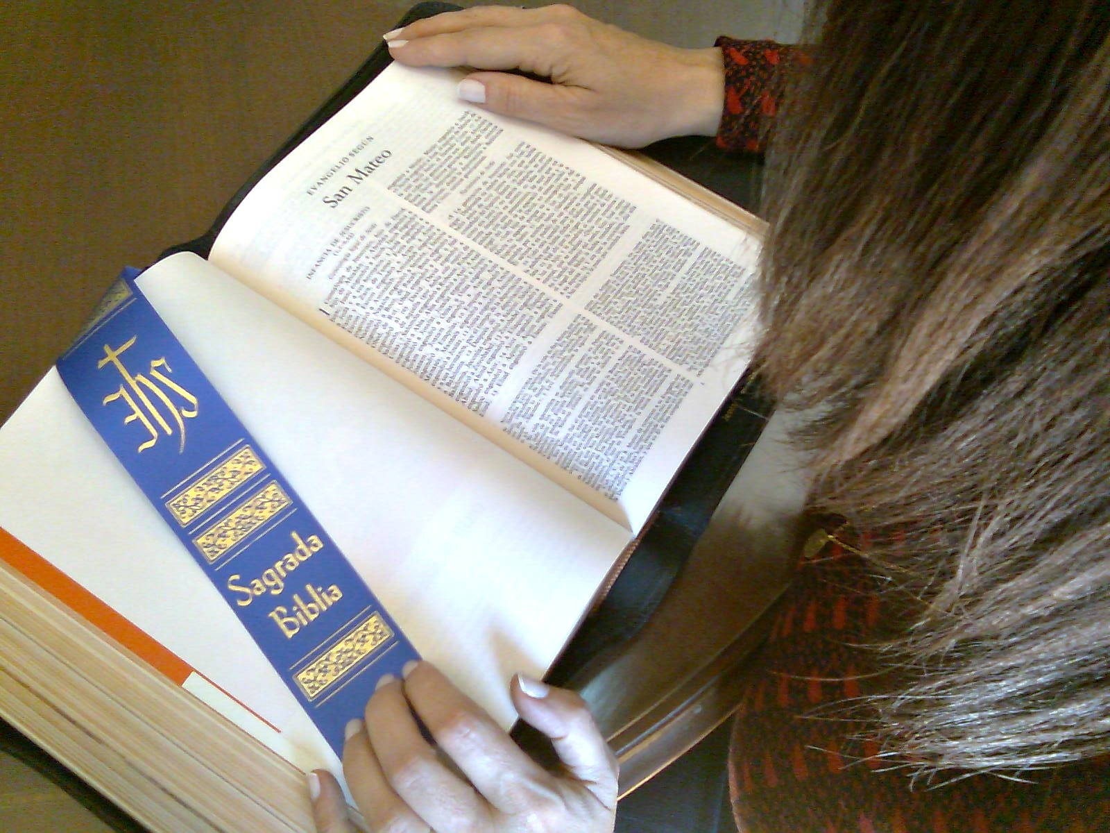 The first two movements of Lectio divina: Lectio (read) and Meditatio (meditate) - Gospel of Matthew, chapter 1.